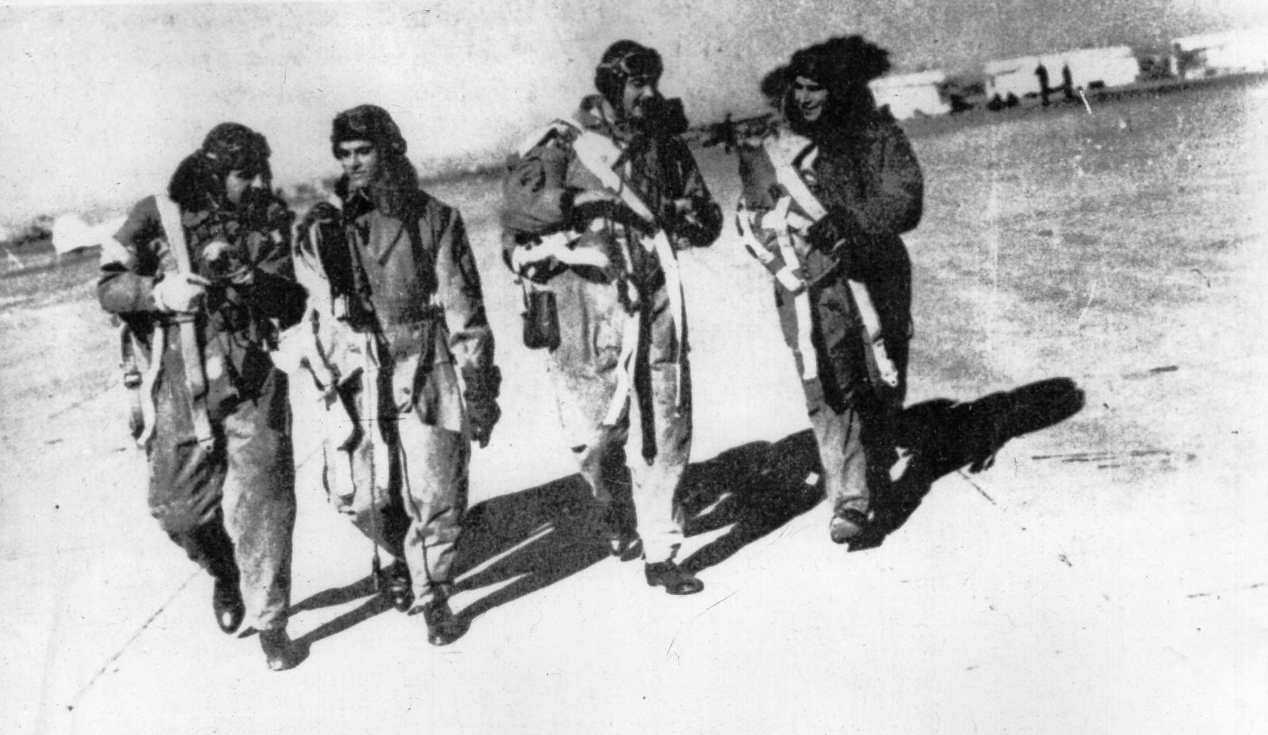 Pilots of government army in the offensive near Vicho, during the Civil war in Greece (1945-1949) This media file is produced by Wikipedian in Residence in Category:Wikipedian in Residence at DARM in 2016.